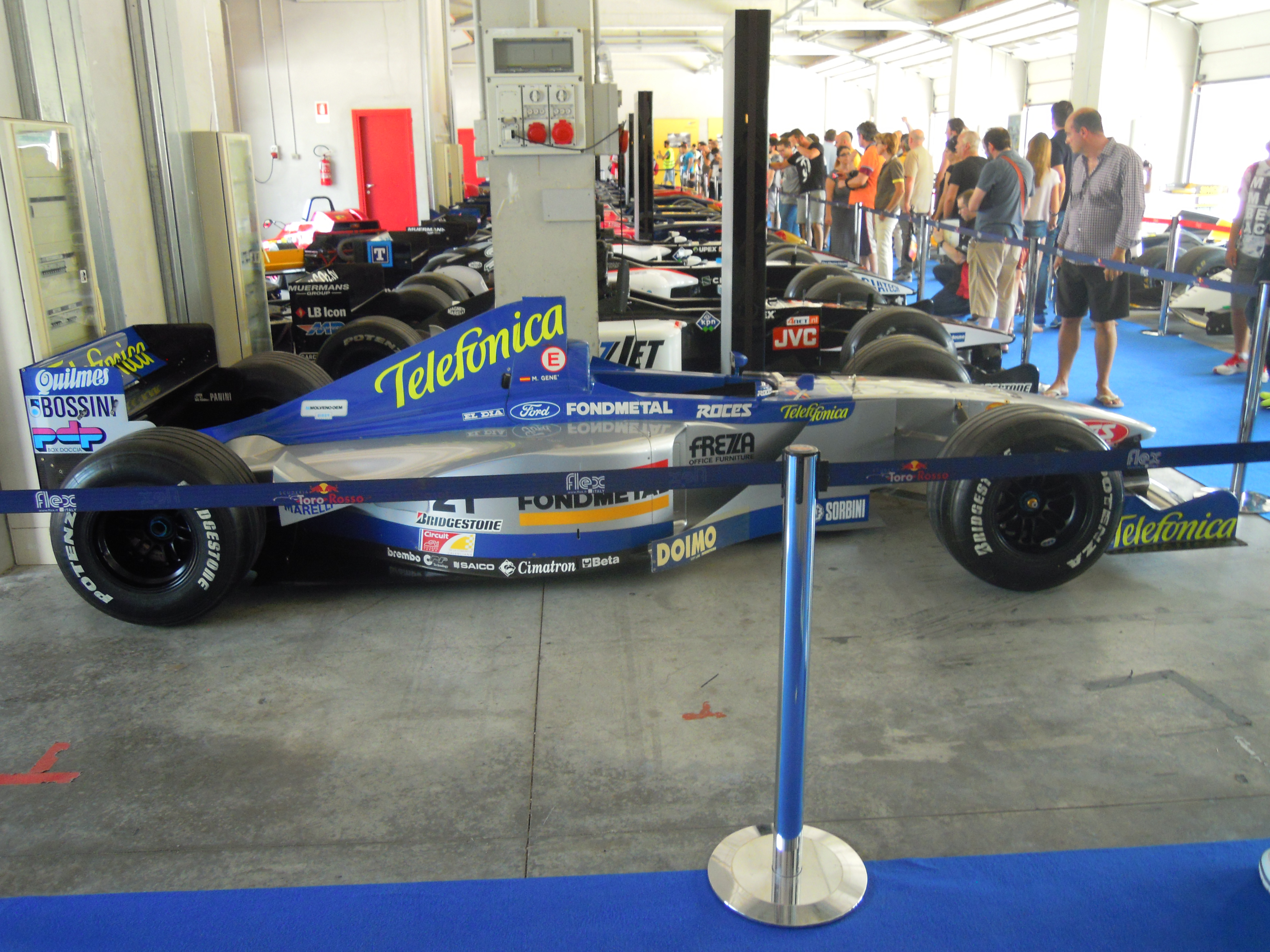 Minardi M01 exposed at the Autodromo Enzo e Dino Ferrari